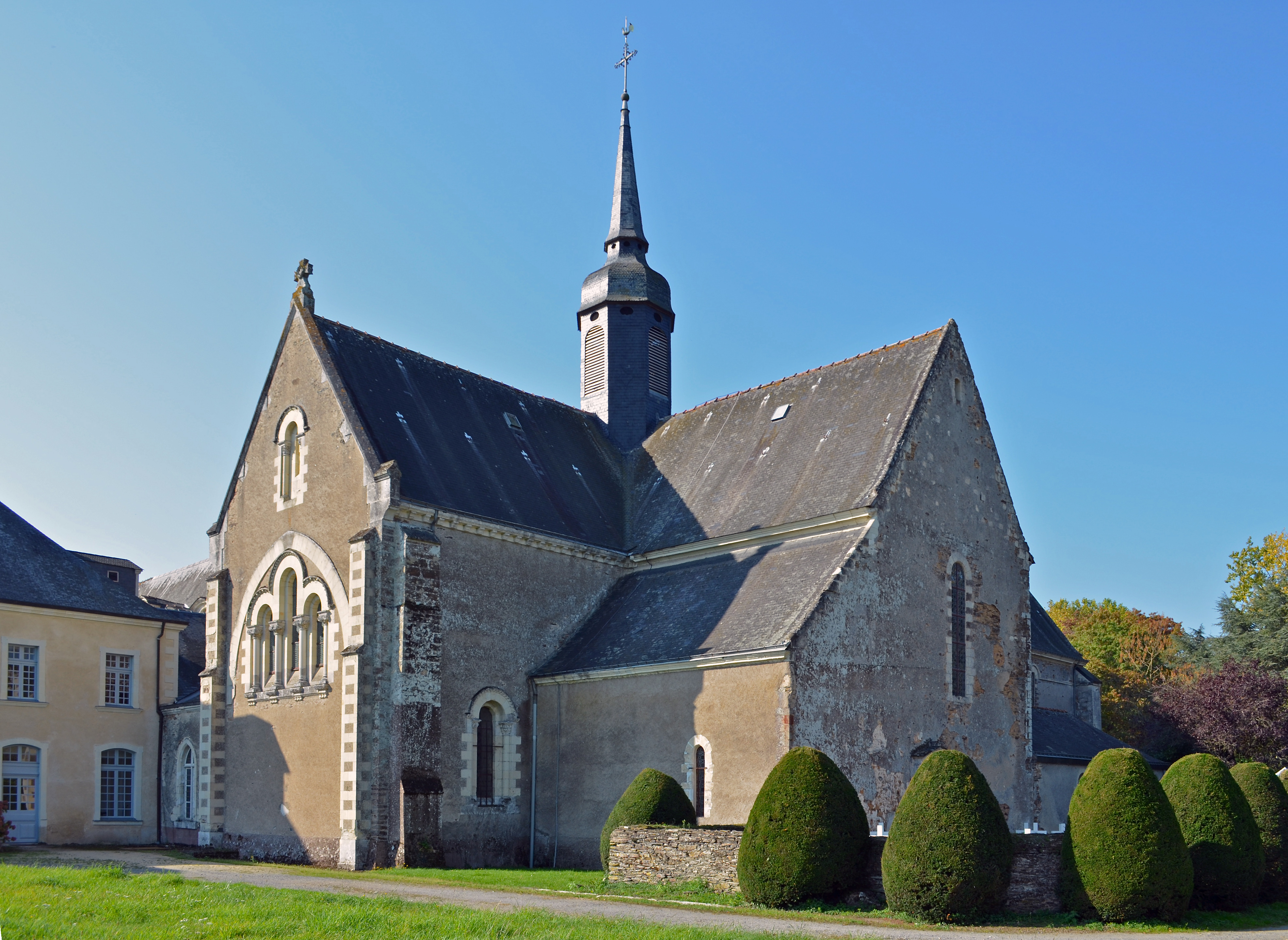 Church of Abbey Notre-Dame de Melleray - La Meilleraye-de-Bretagne (Loire-Atlantique, France) This building is en partie classé, en partie inscrit au titre des Monuments Historiques. .